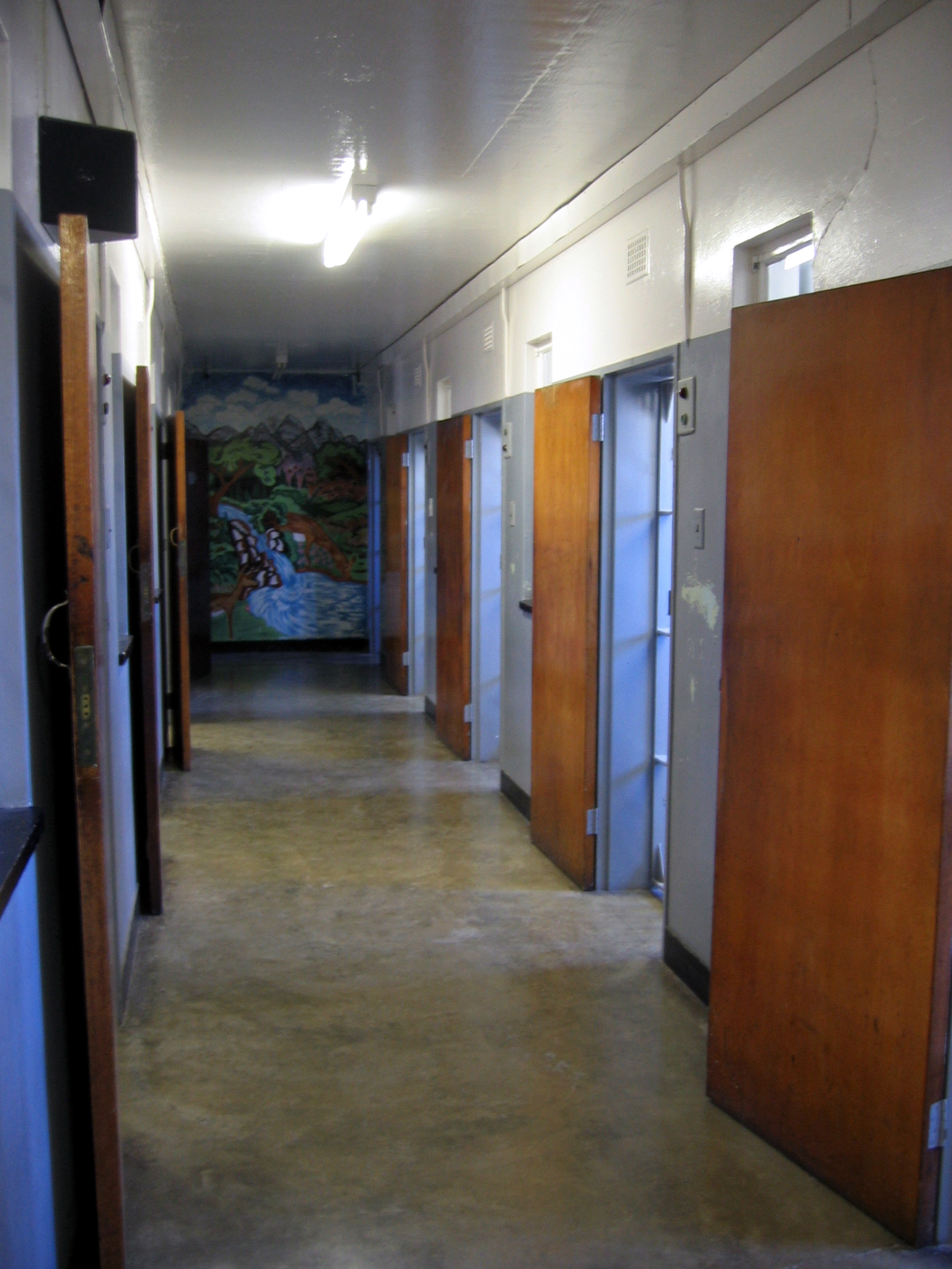 South Afrika, Robben Island, Prison Cells